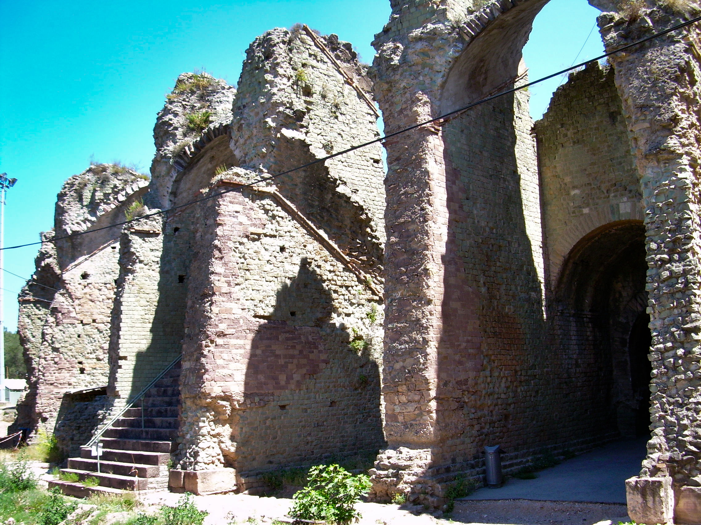 Roman amphitheatre of Fréjus or Forum Julii, Var, France